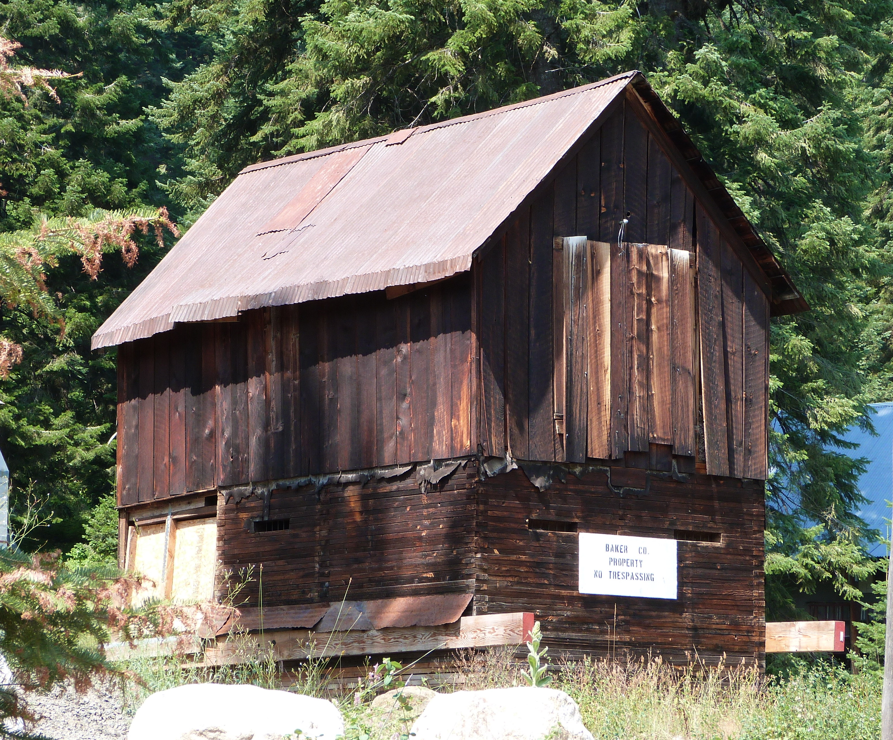 The historic Cornucopia Jailhouse, located on 2nd Street in Cornucopia, Oregon, United States, is listed on the US National Register of Historic Places.